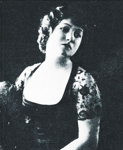 Publicity photo of Ouida Bergère from Who's Who on the Screen